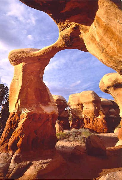 Metate Arch, Grand Staircase-Escalante National Monument, Utah, United States.